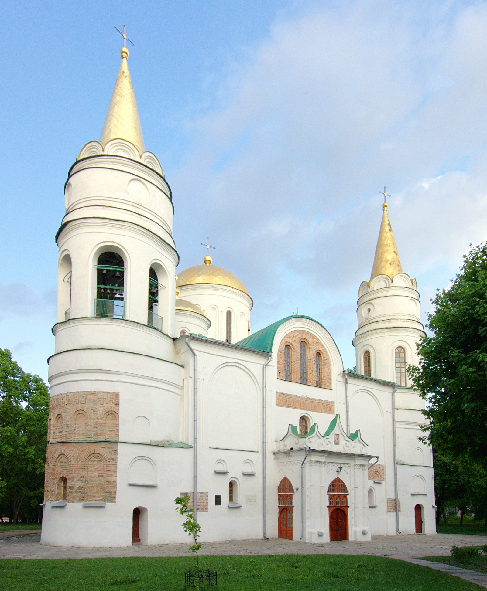 Transfiguration Cathedral in Chernigov